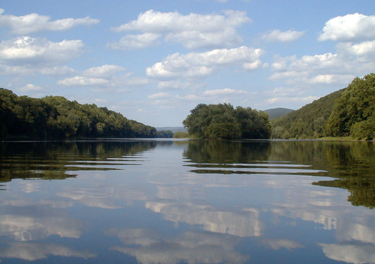 Delaware River near Worthington State Park